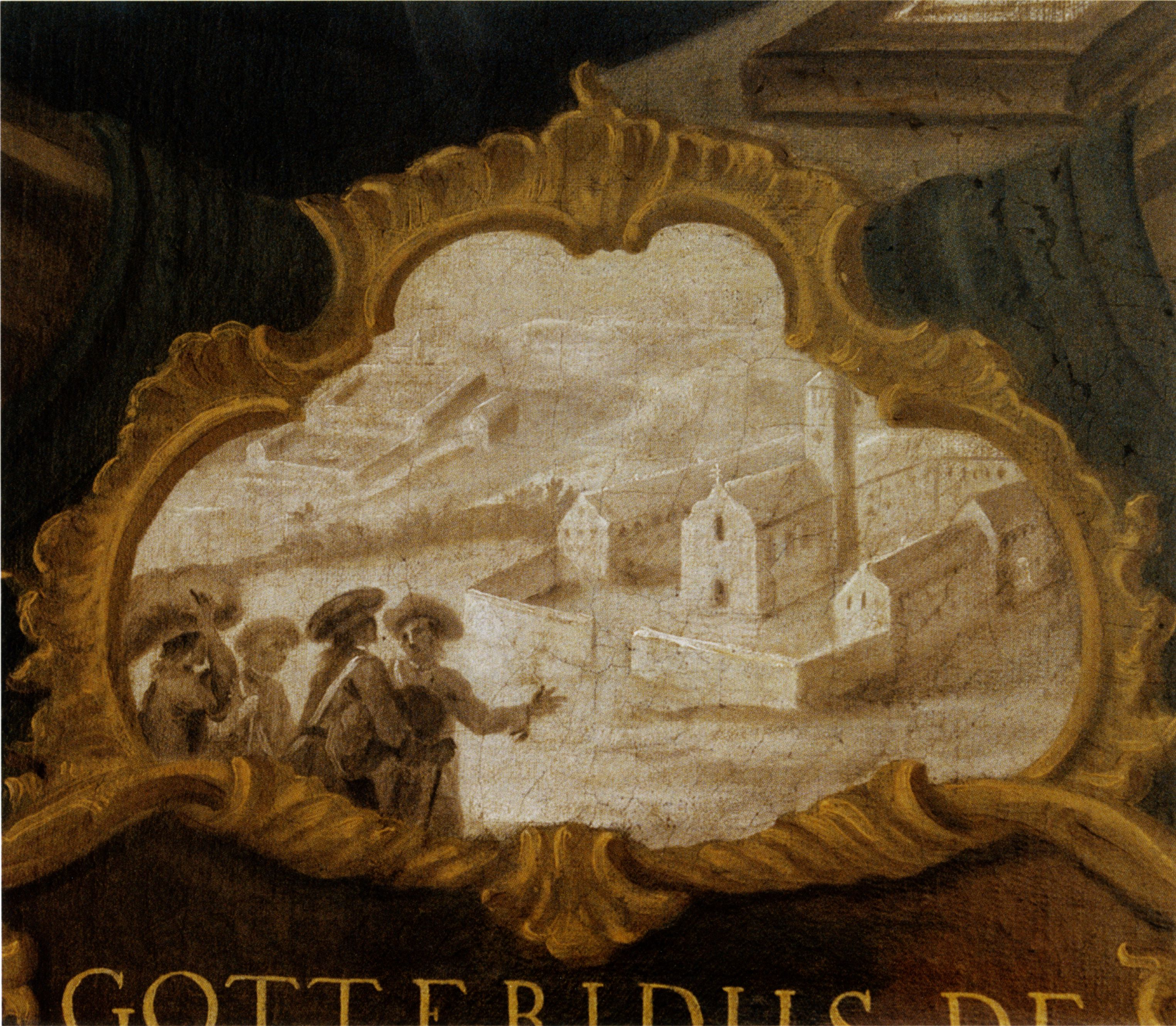 Detail of painting by Franz Ludwig Hermann showing abbot Gottfried of St. Peter, Black Forerst, Germany. The detail shown is a view of St. Märgen as imagined in mid-18th century